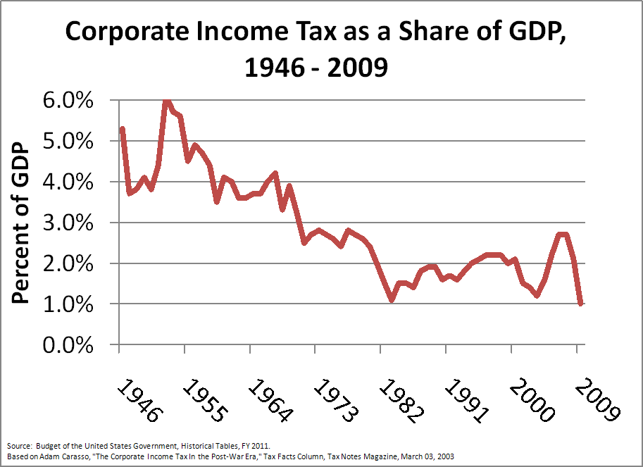 United States Corporate Income Tax as Percent Share of GDP, 1946 - 2009.